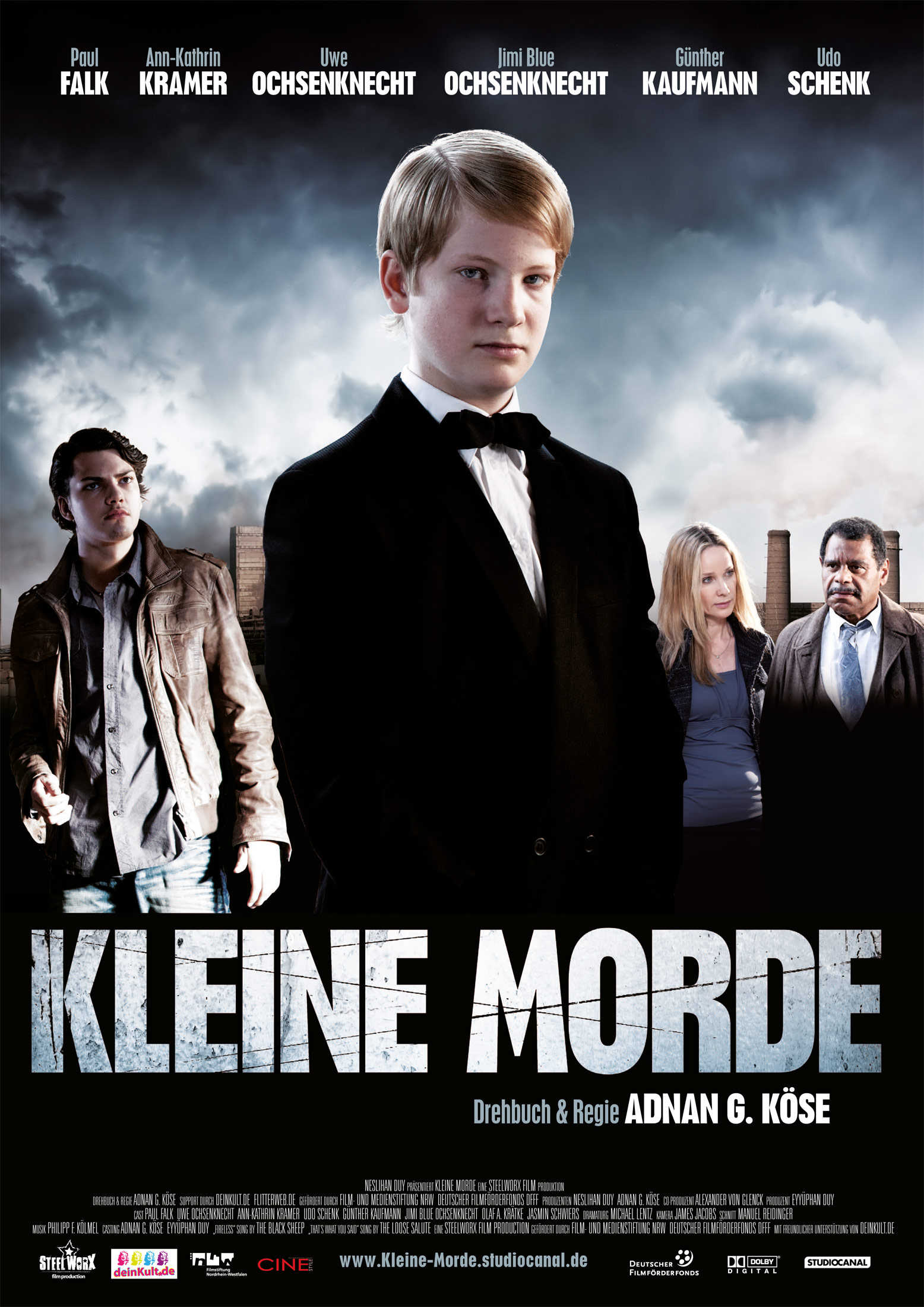 Filmposter of KLEINE MORDE (dt. Little Murders - 2012 - SteelWorX Film Production GmbH). It shows cast: Paul Falk, Jimi Blue Ochsenknecht, Ann-Kathrin Kramer und Günther Kaufmann.